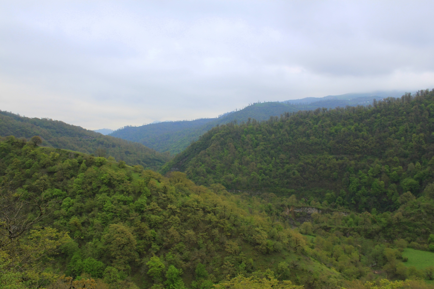 Yardimli forest in Azerbaijan